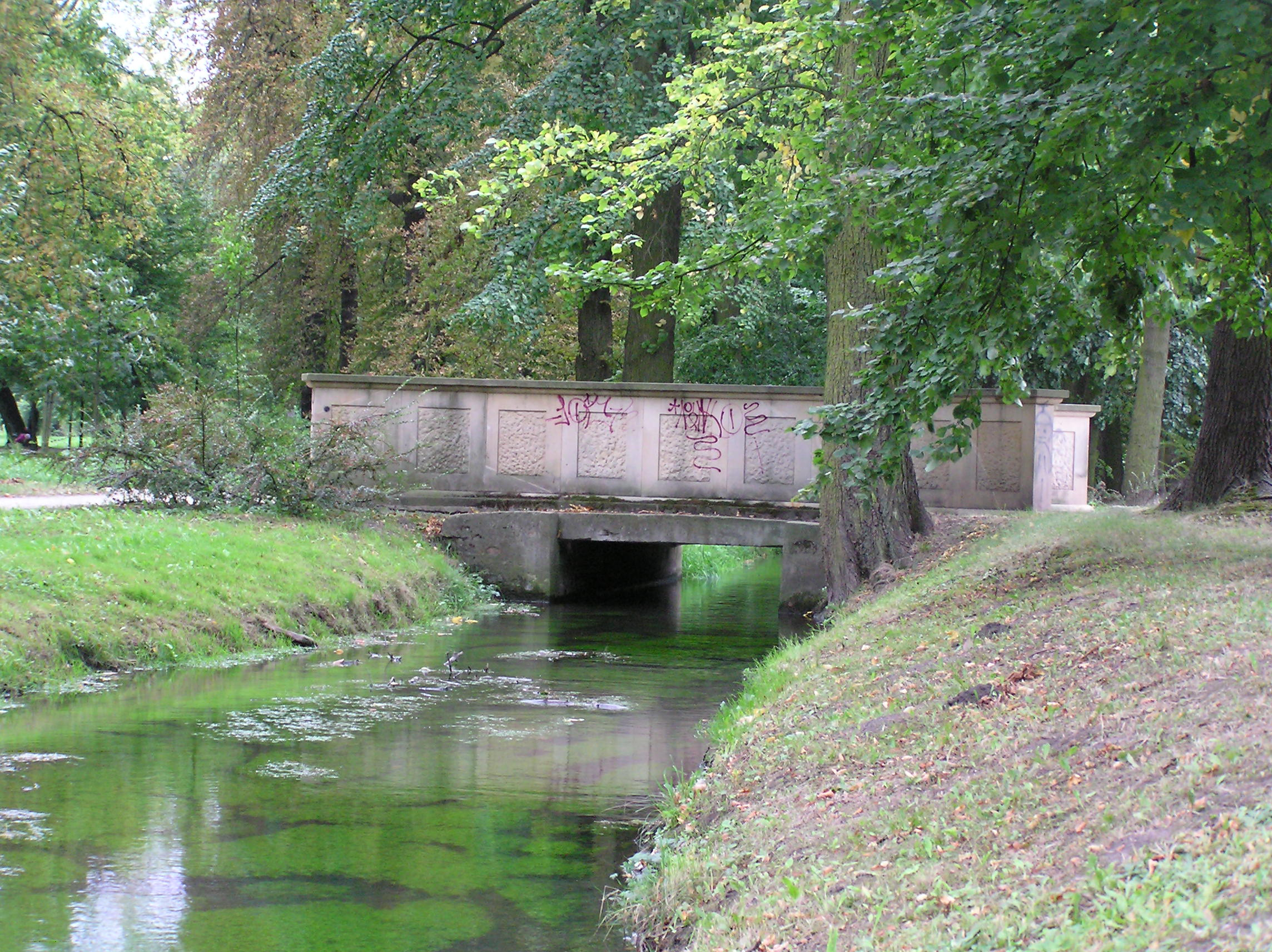 Poland, Wrocław, Brochowski Park, Brochówka River